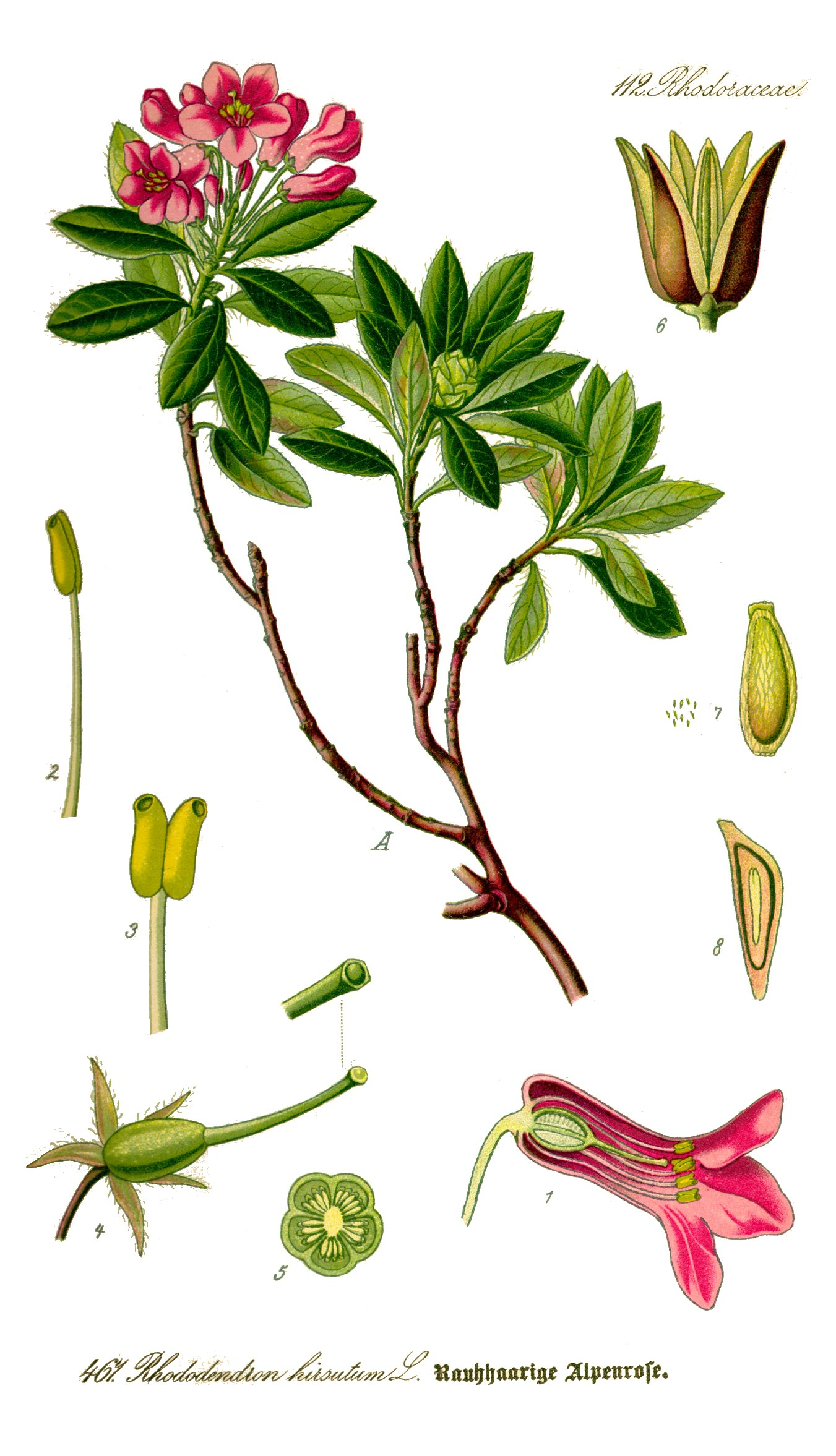 Name Rhododendron hirsutum Family Ericaceae